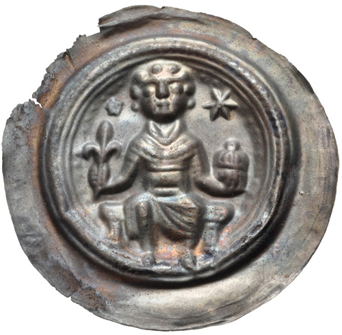 GERMANY, Eilenburg. Otto I. 1191-1234. AR Bracteate (37mm, 1.12 g). Ruler seated facing, holding lis and double orb; rosette to upper left, star to upper right. Schwinkowski 351; Berger 1908; Kestner 1908. Good VF, toned, edge chipped.